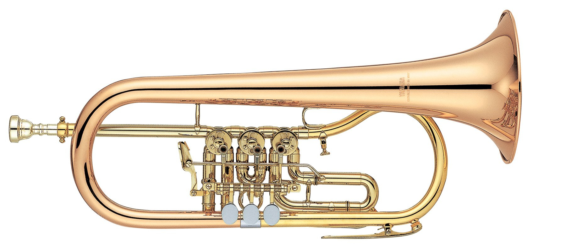 Yamaha Flugelhorn, model YFH-436G. In Bb, yellow brass, three valves, trigger .